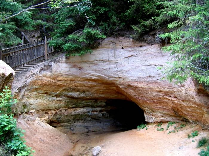 Taevaskoja, Põlvamaa, Estonia